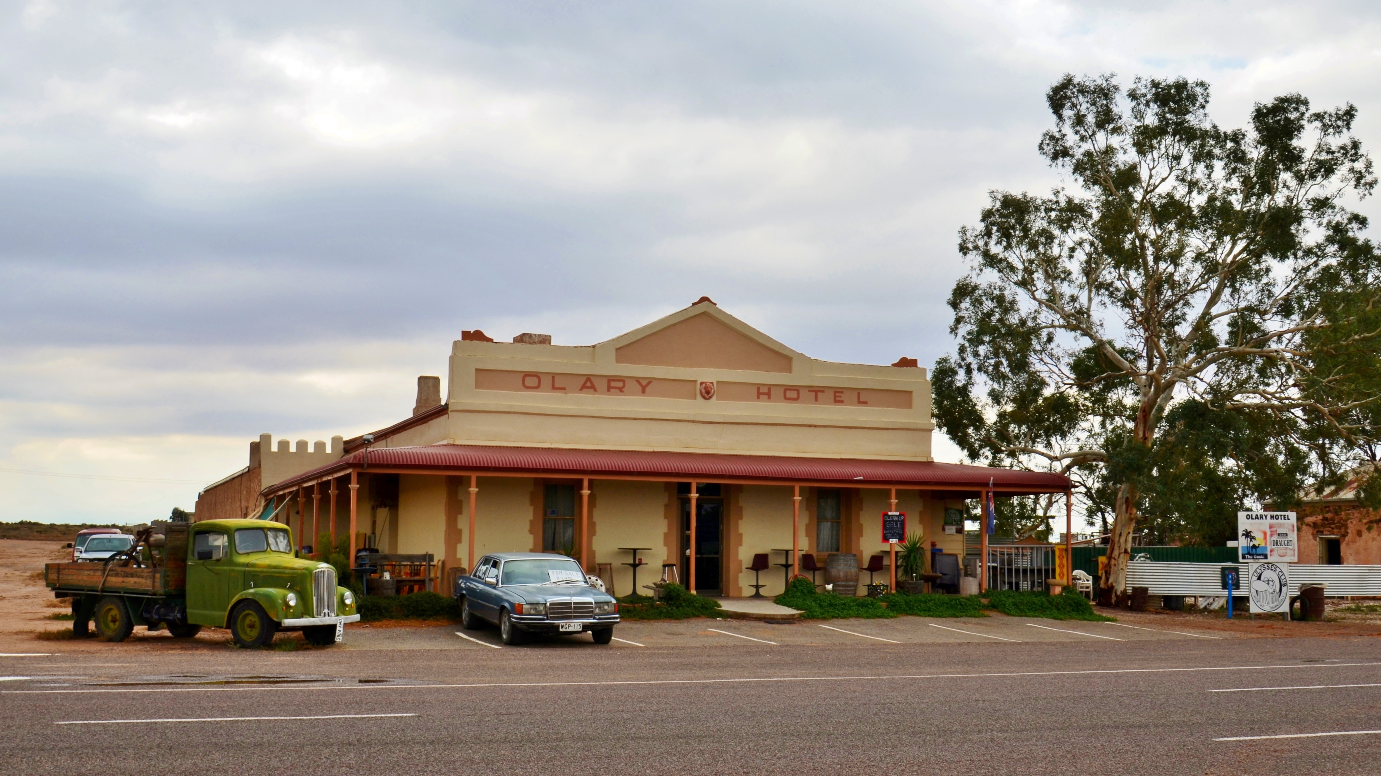 View of the Olary Hotel, Olary, South Australia